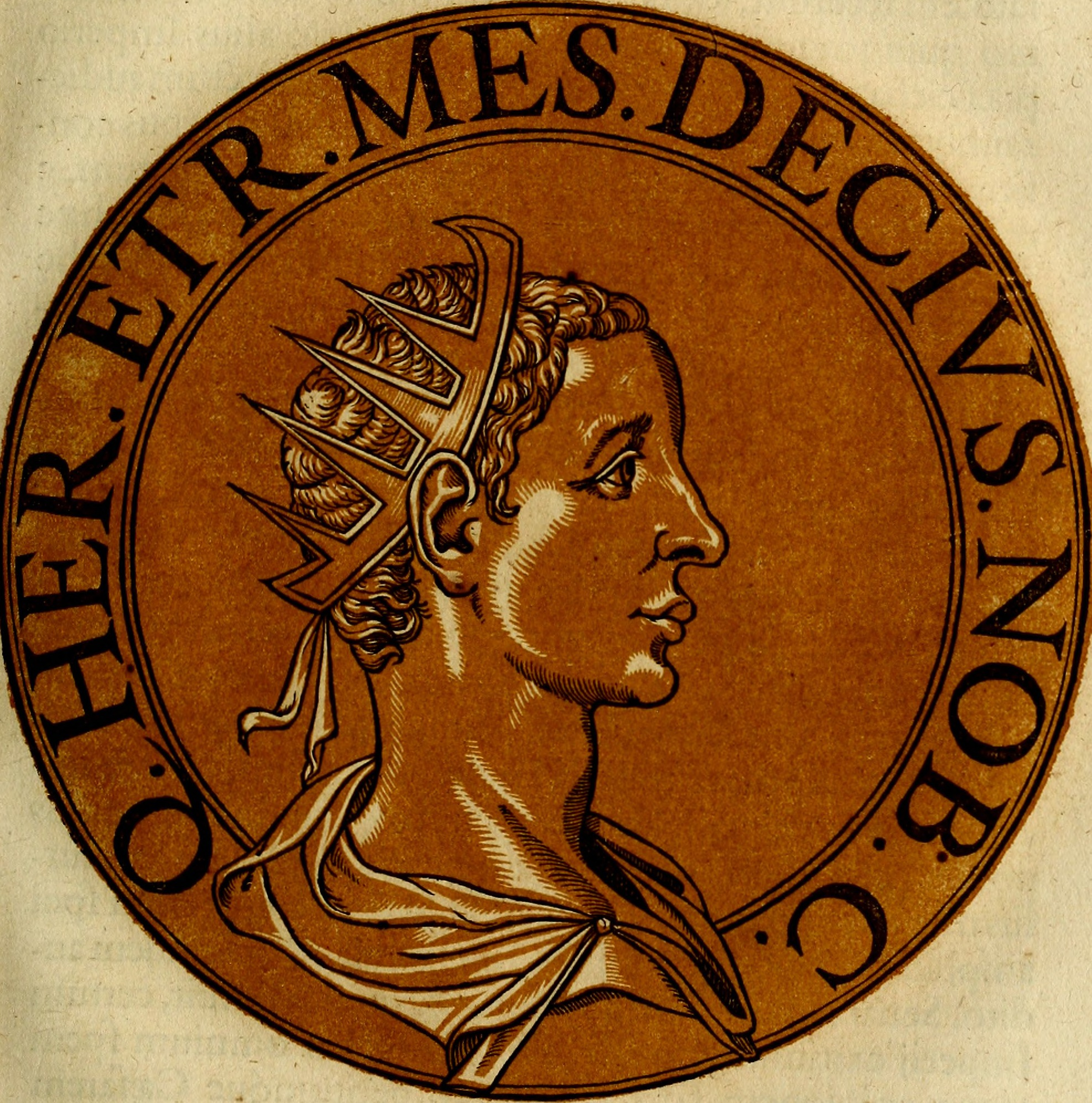 Title: Icones imperatorvm romanorvm, ex priscis numismatibus ad viuum delineatae, & breui narratione historicâ Year: 1645 (1640s) Authors: Goltzius, Hubert, 1526-1583 Gevaerts, Jean-Gaspard, 1593-1666 Rubens, Peter Paul, 1577-1640 Subjects: Emperors Emperors Numismatics, Roman Publisher: Antverpiae, Ex officina plantiniana Balthasaris Moreti Text Appearing Before Image: rtere debuerunt. Hac fuga \ta fe mutuo oppreffe-runt, vt maius detrimentum a leipfis quam ab noftibuspaterentur. In eo conflic~tu Decius filius iaculo transfi-xus, cum maxima parte fui exercitus interijt; qua re moe-ftus iratufque Decius fummopere eft: nihilominus itsufortiter fe in fuga defendit, vt fua manu triginta occide-rit. Sed cum ea regio obDanubium lutofa ac paluftrisfit, Decius ab hoftibus fugatus , feque victum cognofeens,equo in voraginem paludis defilijt, nee vmquam eiusca-dauer poftea repertum. Hinc tanta Romanis triftitia lu-ctufque fuit, vt dici haud poffit; vtpote quod ad lftummodum Imperatores fiios exercitumque amififlent ; quitamen fide , conftantia ac fbrtitudine prifcis Ducibus effent merito annumerandi. Omnes, qui fuga elapfi erant,ad fines Moefix profugerunr_;. Ex hoc rerum fuccefluGothi multo plura conati, nunc demum Romanis irafeicoeperunt: quamobrem fe in expeditione continences,fuis fedibus contend effe noluerunt. 83 XLL TIMIDI NVMQVAM STATVERVNT TROPHiEVM. Text Appearing After Image: A pane Romanis in Csefarem datus, primufqueCasfarumomnium hoftili gladio percuflus. L z